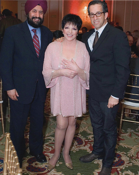 amfAR